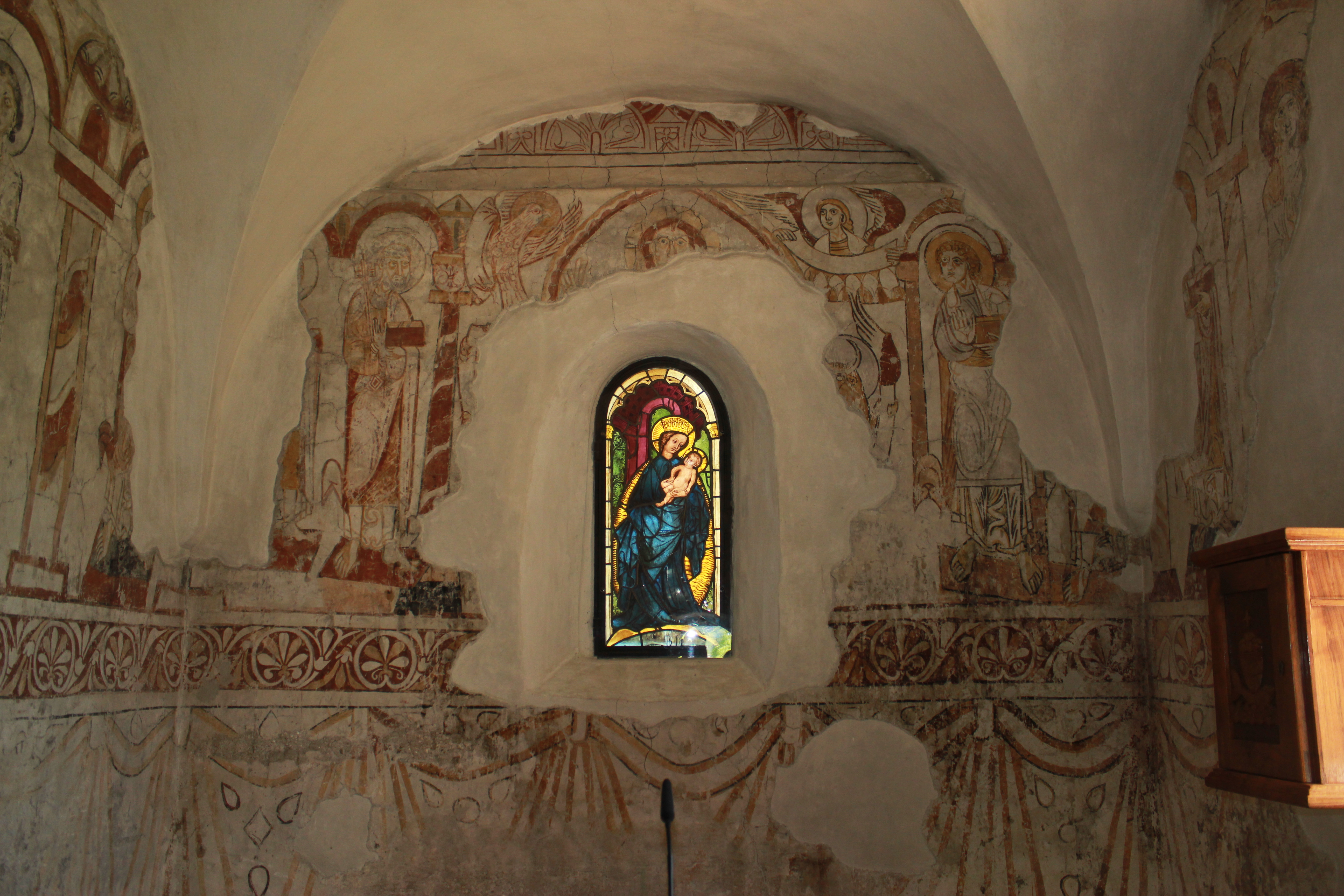 Rosary-church in Maria Wörth - choir